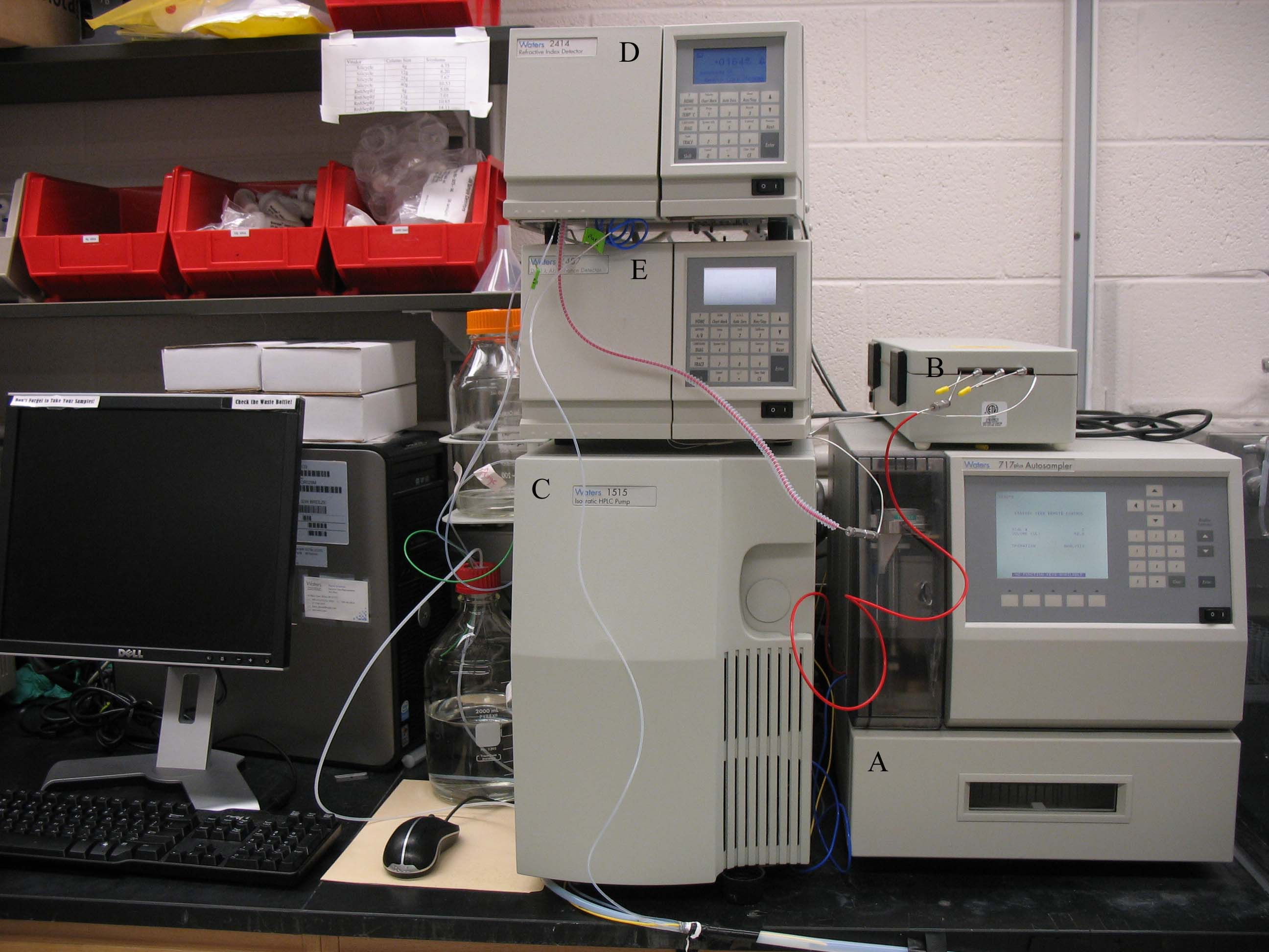 A typical Waters GPC instrument including A. sample holder, B.Column C.Pump D. Refractive Index Detector E. UV-vis Detector